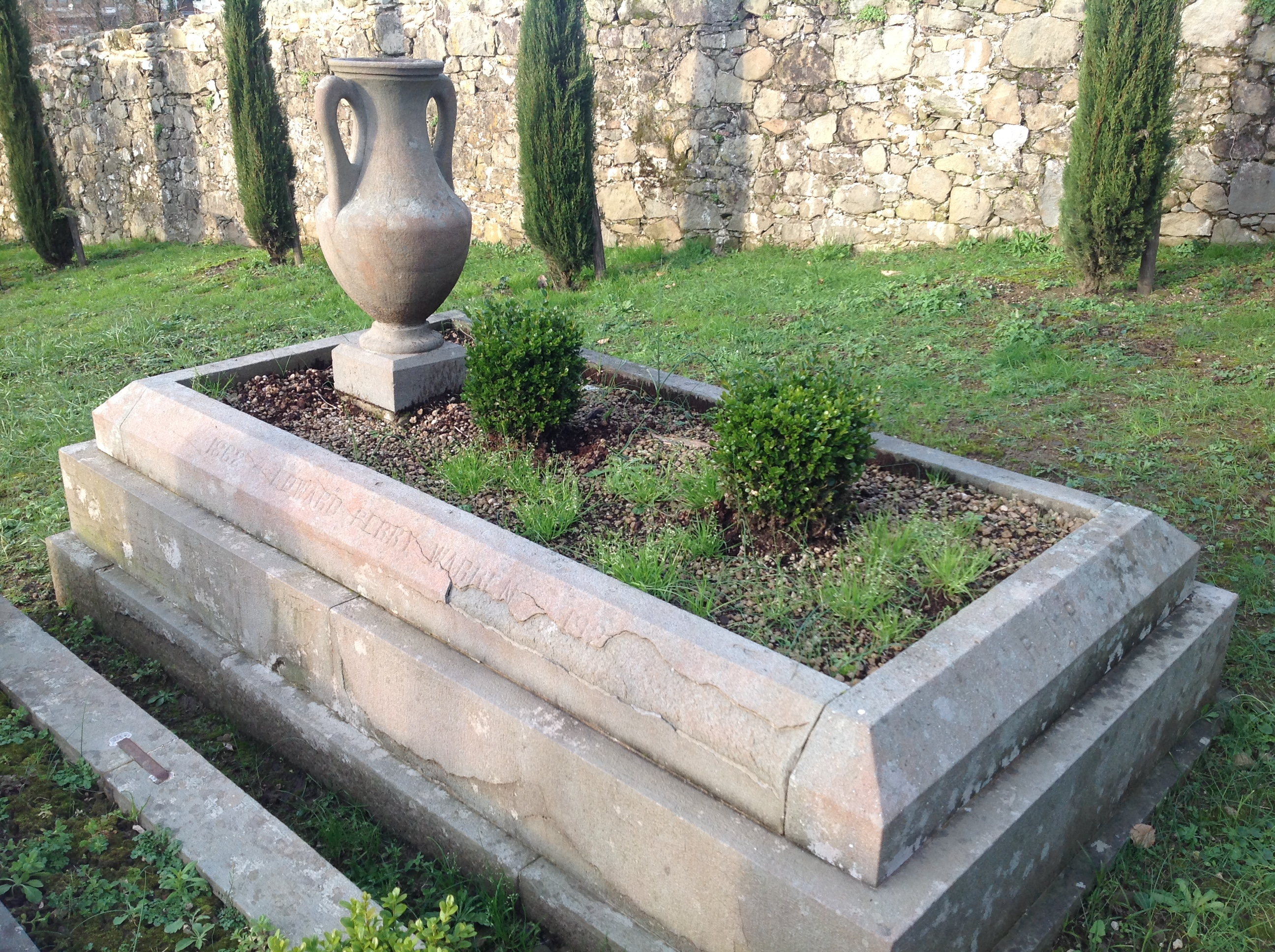 Image originally published in Queer Places: Retracing the Steps of LGBTQ people around the World Authored by Elisa Rolle